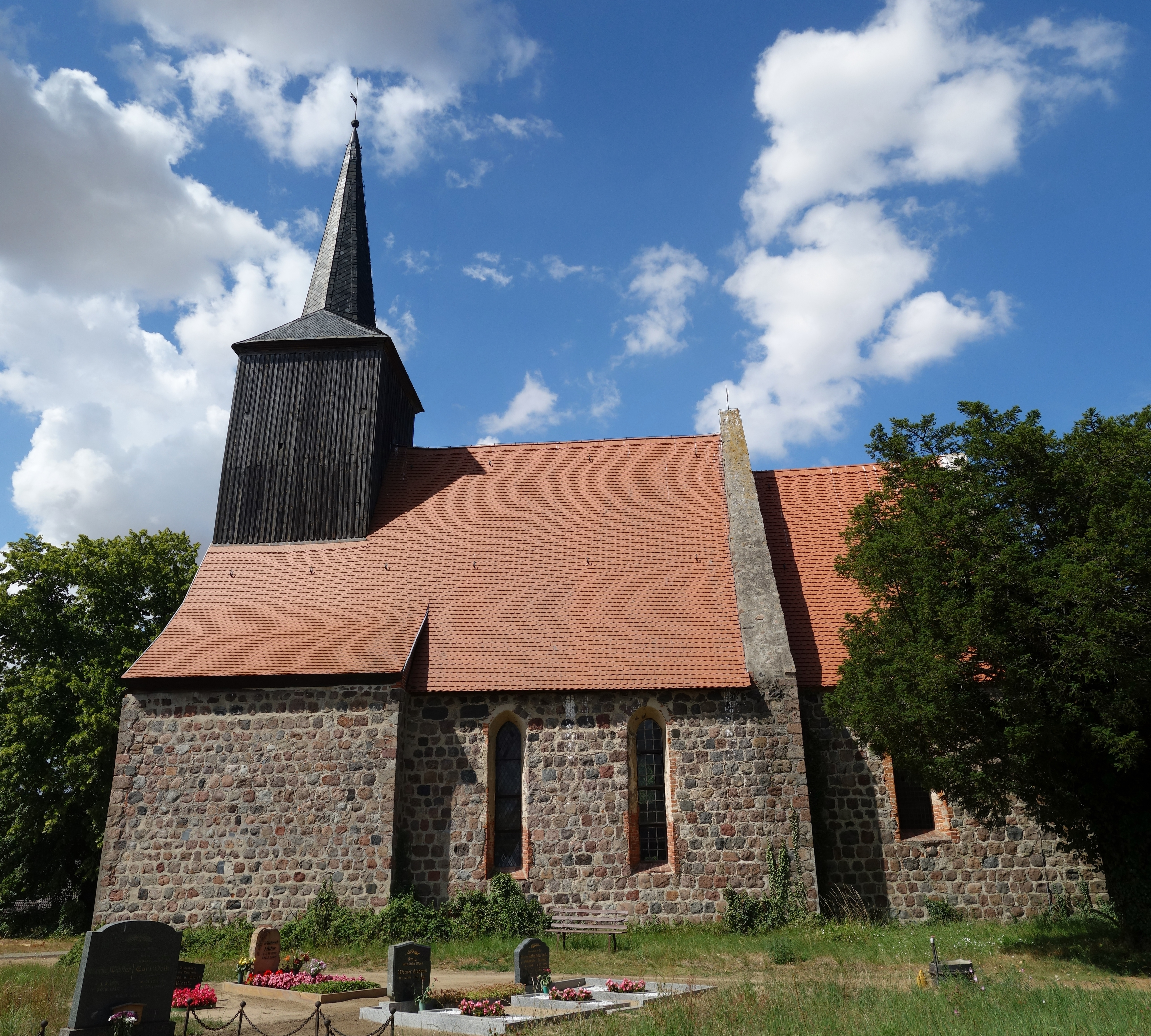 Southern portal of the church in Schapow , Nordwestuckermark municipality, Uckermark district, Brandenburg state, Germany